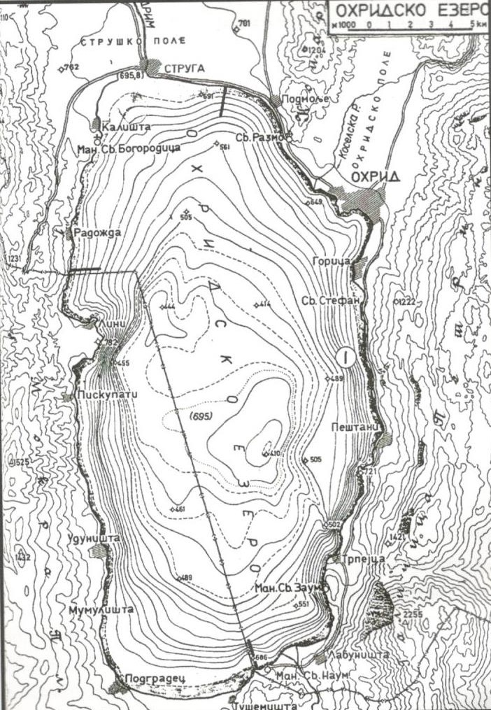 Map with depths of the Ohrid Lake